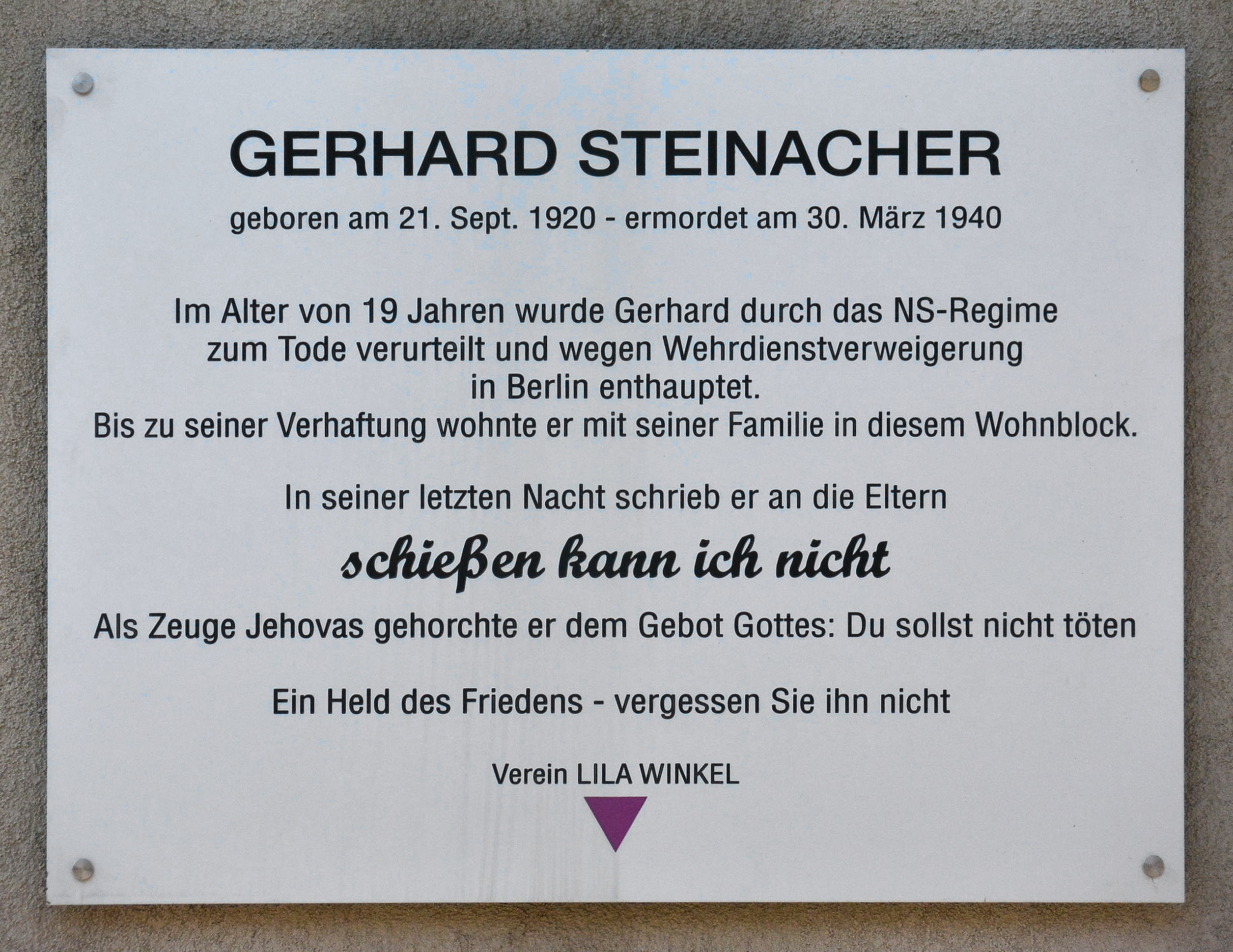 Plaque for Gerhard Steinacher, conscientious objector and as such victim of the NS-regime. Steinacher lived here at Längenfeldgasse 68 when arrested.